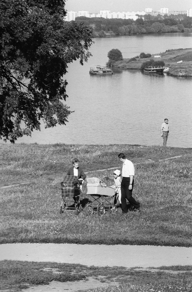 “Family recreation in Kolomenskoye”. Family recreation in the Moscow Kolomenskoye museum reserve.